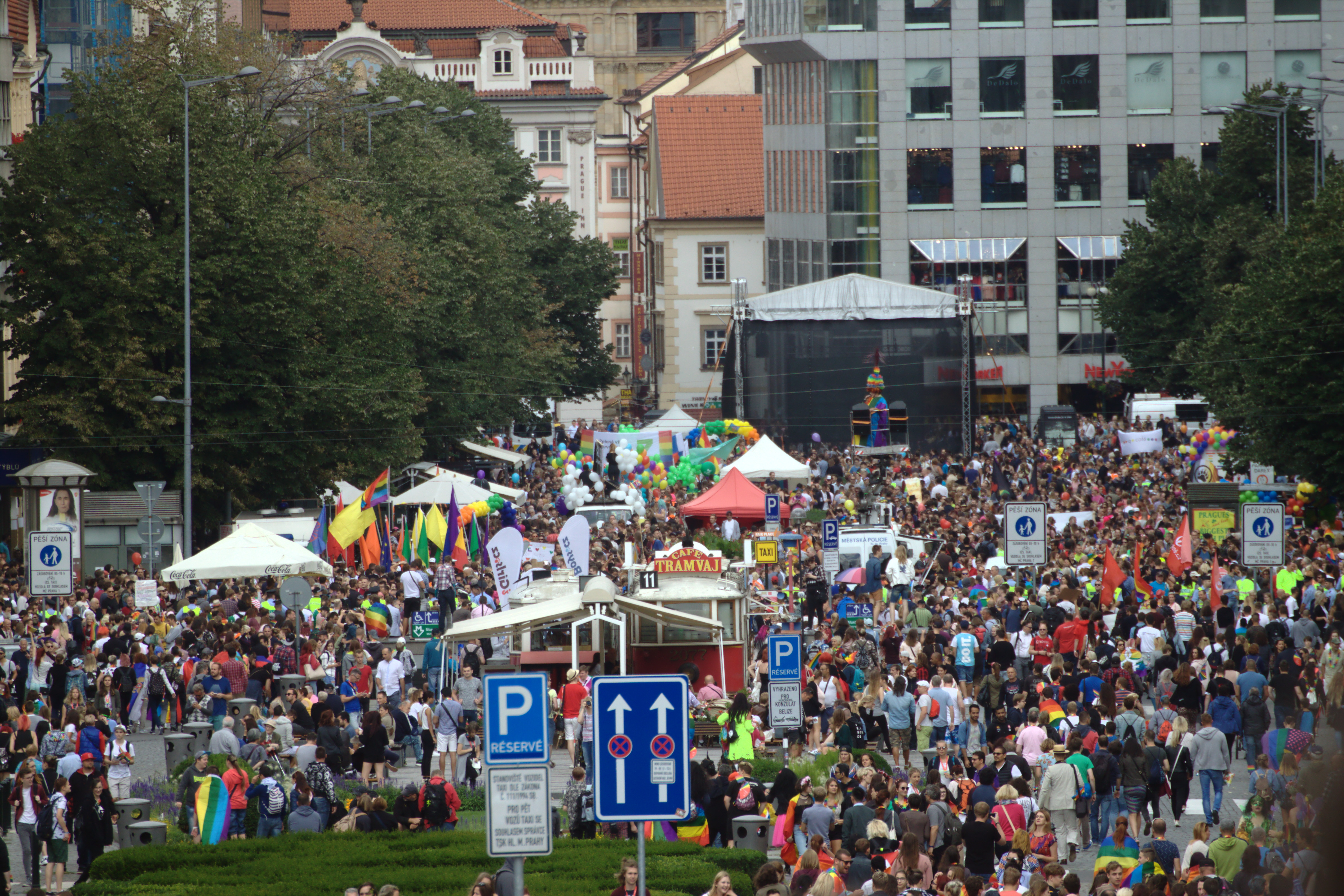 Prague Pride march in August 2017